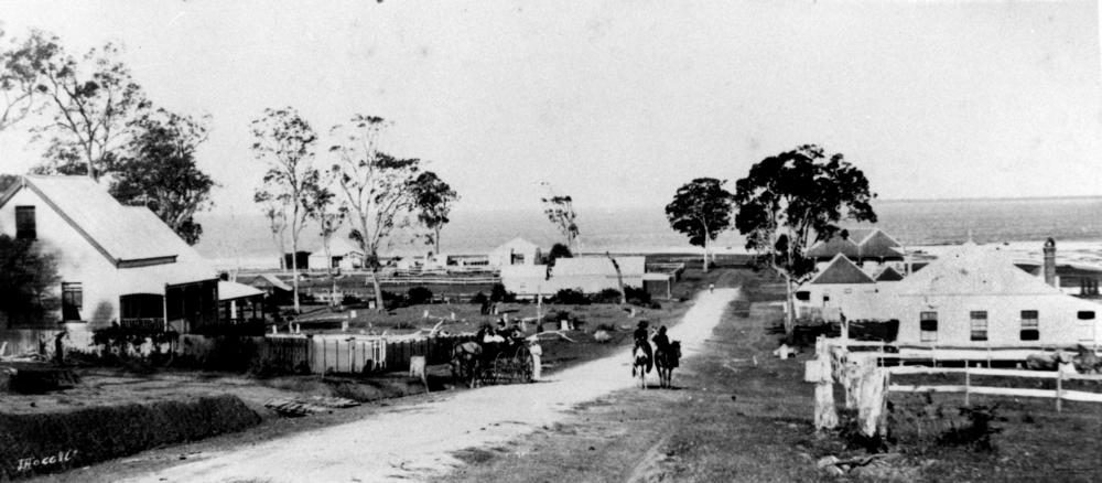 Street in Wynnum, Brisbane, ca. 1889. View of people on horses and a horsedrawn wagon on a street in Wynnum. Houses and properties line both sides of the street. Eucalyptus trees are also visible.